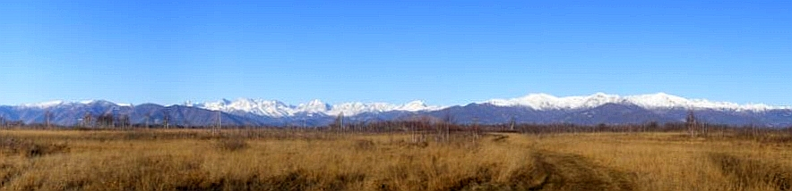 Vauda natural park (TO, Italy): panorama from San Francesco al Campo